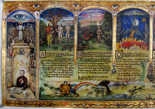 Paradise Lost the gold illuminated scroll